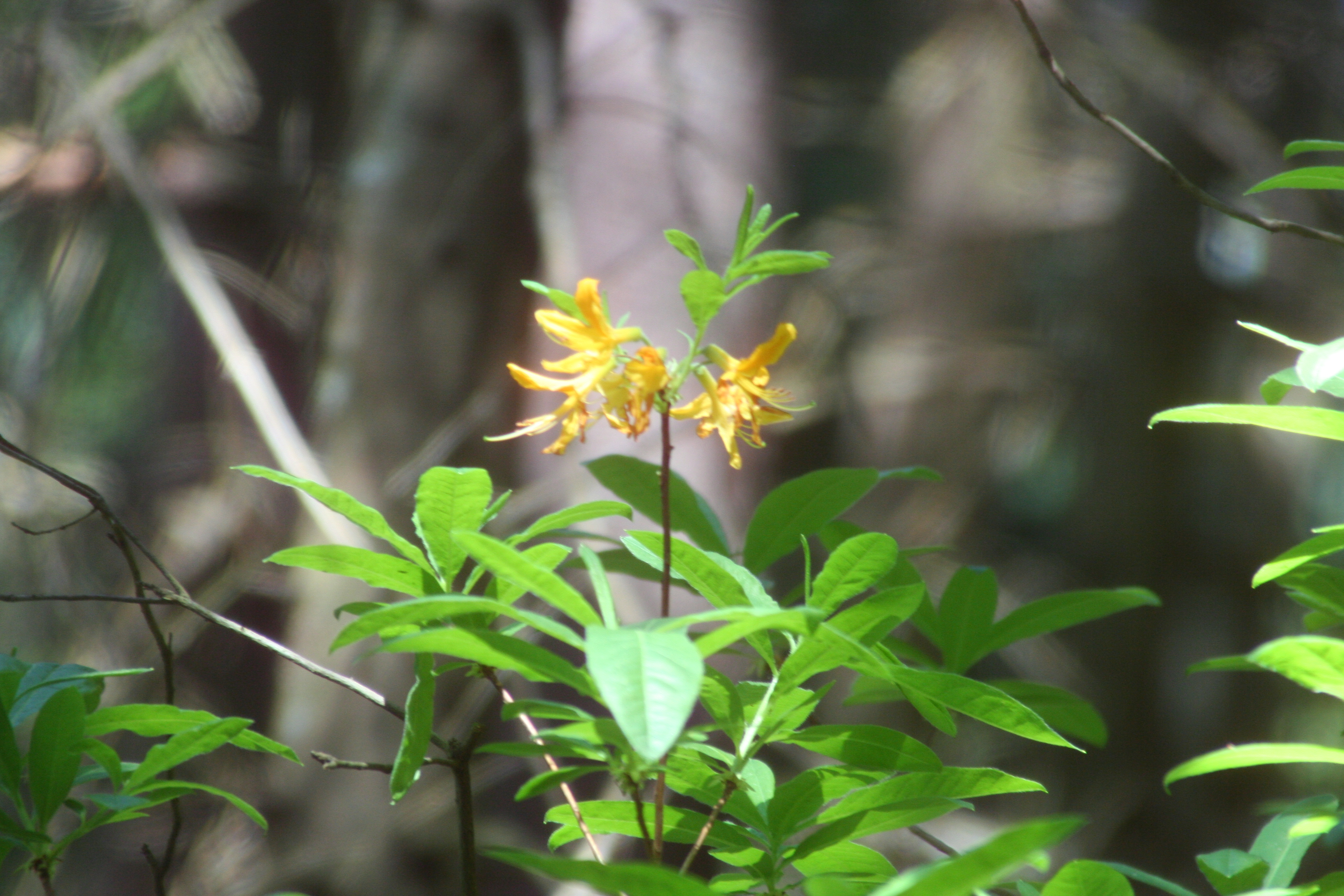 Rhododendron luteum sweet In Austria this plant species only grows in Lendorf, Carinthia